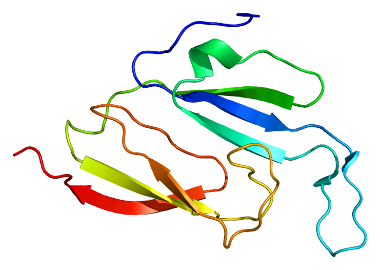 Structure of the MVP protein. Based on PyMOL rendering of PDB 1y7x.